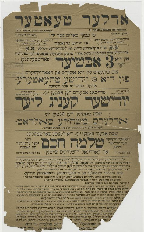 Poster for "The Yiddish King Lear". The following partial translation comes from the NYPL site (links and formatting added): Der Yudisher Kenig Lier [The Jewish King Lear] by Mr. Jacob Gordin Mr. Jacob Adler as King Lear, Mr. [Berl] Bernstein as Shammai Windsor Theatre, Thursday, October 13, en:1898. Partial translation: 'A sea of diamonds! 'What, more diamonds?' we hear you say with a smirk. 'It must be some new play, but what of it' 'No, friend, this time you are wrong. We tell you in all seriousness that we have put together something the like of which you have never seen before, even in your dreams. Listen, now, to what we have for you: The Jewish King Lear, for the benefit of the Hebrew Legal Aid and Protective Association.'